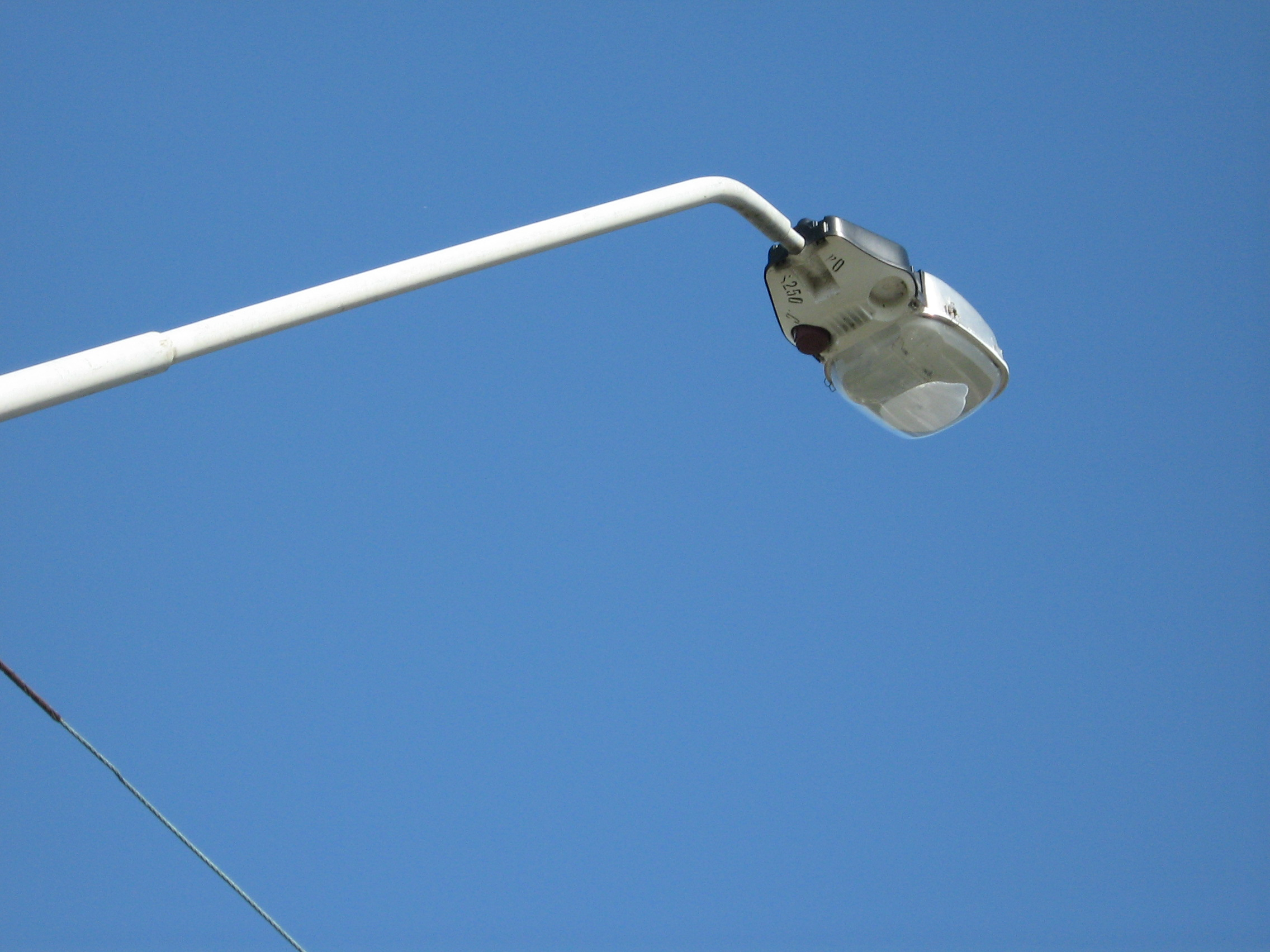 Closeup of a sodium vapor streetlight lantern and outreach bracket